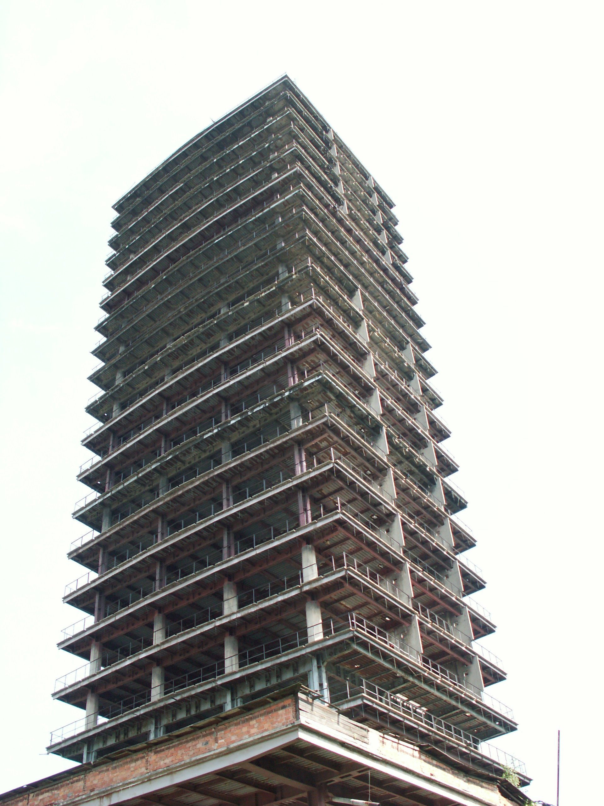 The Szkieletor, a previously unfinished highrise building in Kraków.